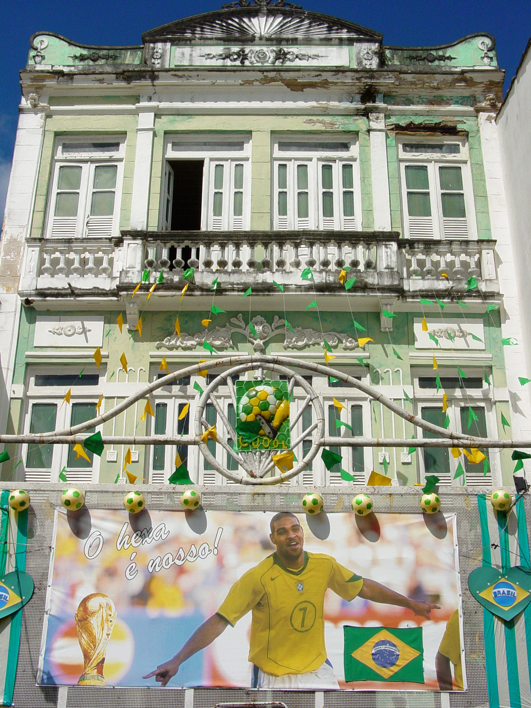 Building facade with poster of soccer player in Salvador, Bahia state, Brazil. July 2006.